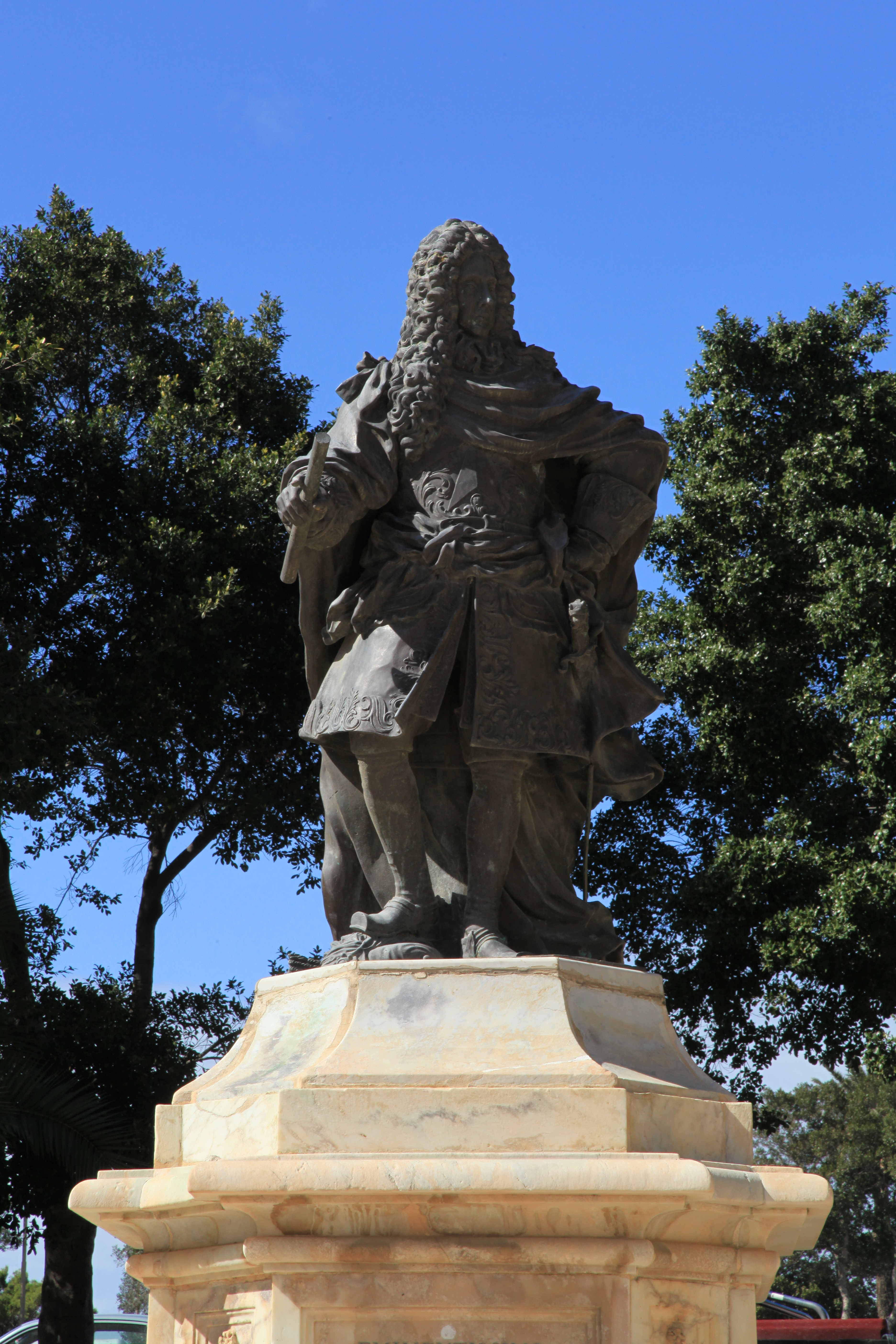 Monument to Grand Master de Vilhena at Misraħ Papa Gwanni XXIII in Floriana, Malta